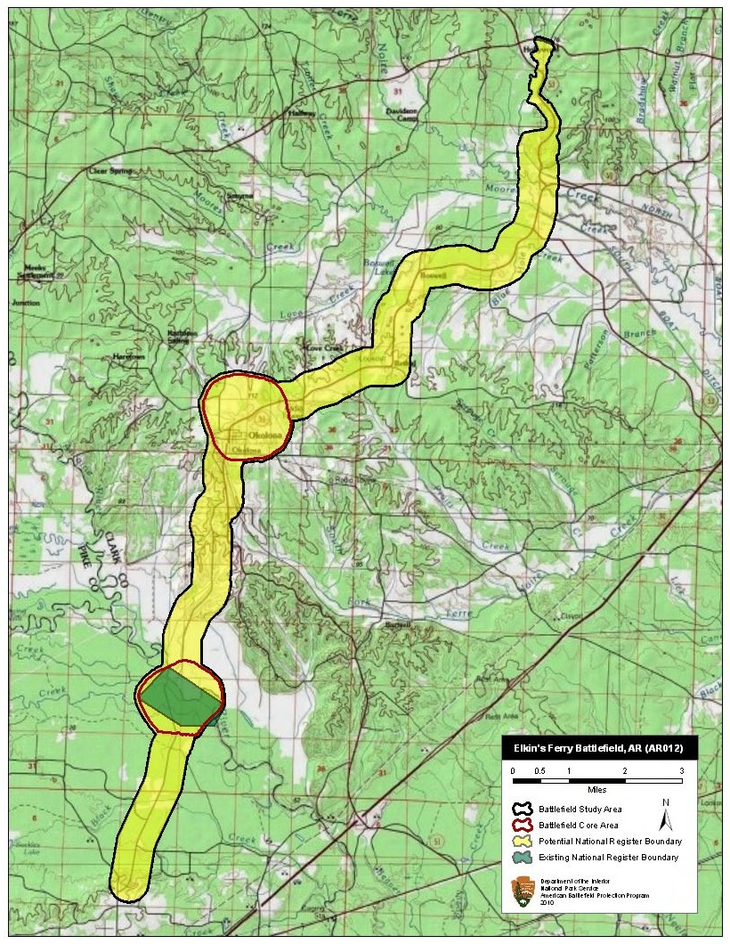 Map of battlefield core and study areas. The ABPP shifted the Study Area to the east in alignment with the Old Military Road. It was also widened to include locations of the near-constant skirmishing between the towns of Hollywood and Okolona and between Okolona and the Little Missouri River. The ABPP shifted the Core Area at Okolona to the east so as to include the Old Military Road. The Core Area at the Little Missouri was lengthened slightly to include the positions of batteries engaged during the battle.